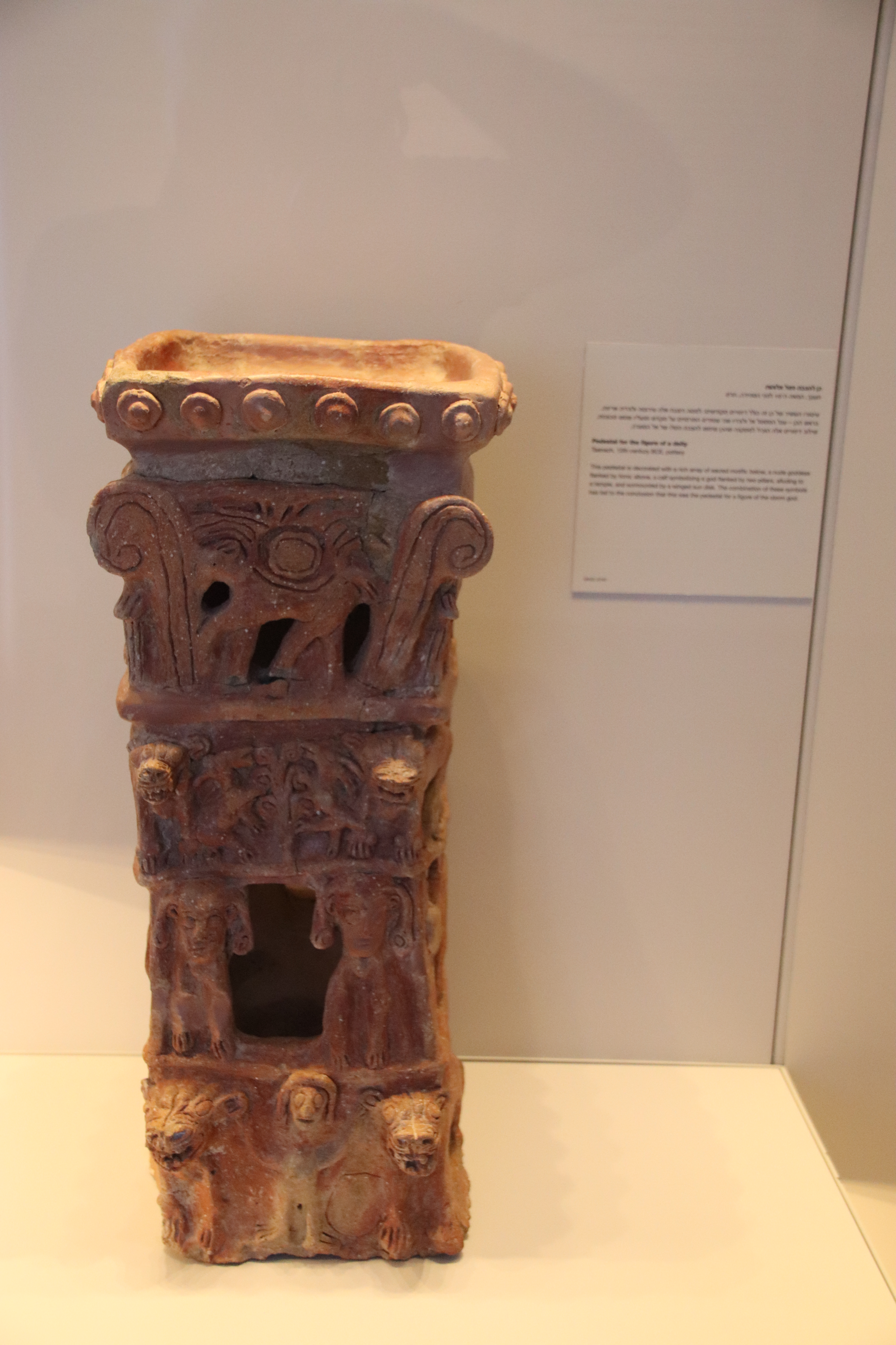 Israel Museum, Jerusalem, Israel. Complete indexed photo collection at